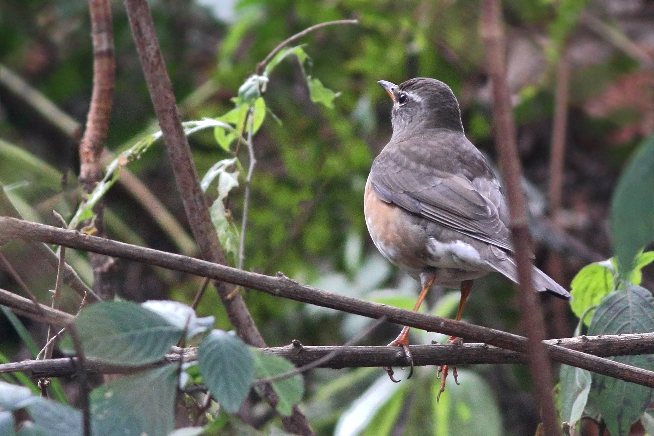 Eyebrowed Thrush from Khonoma bird watching tour to Nagaland.